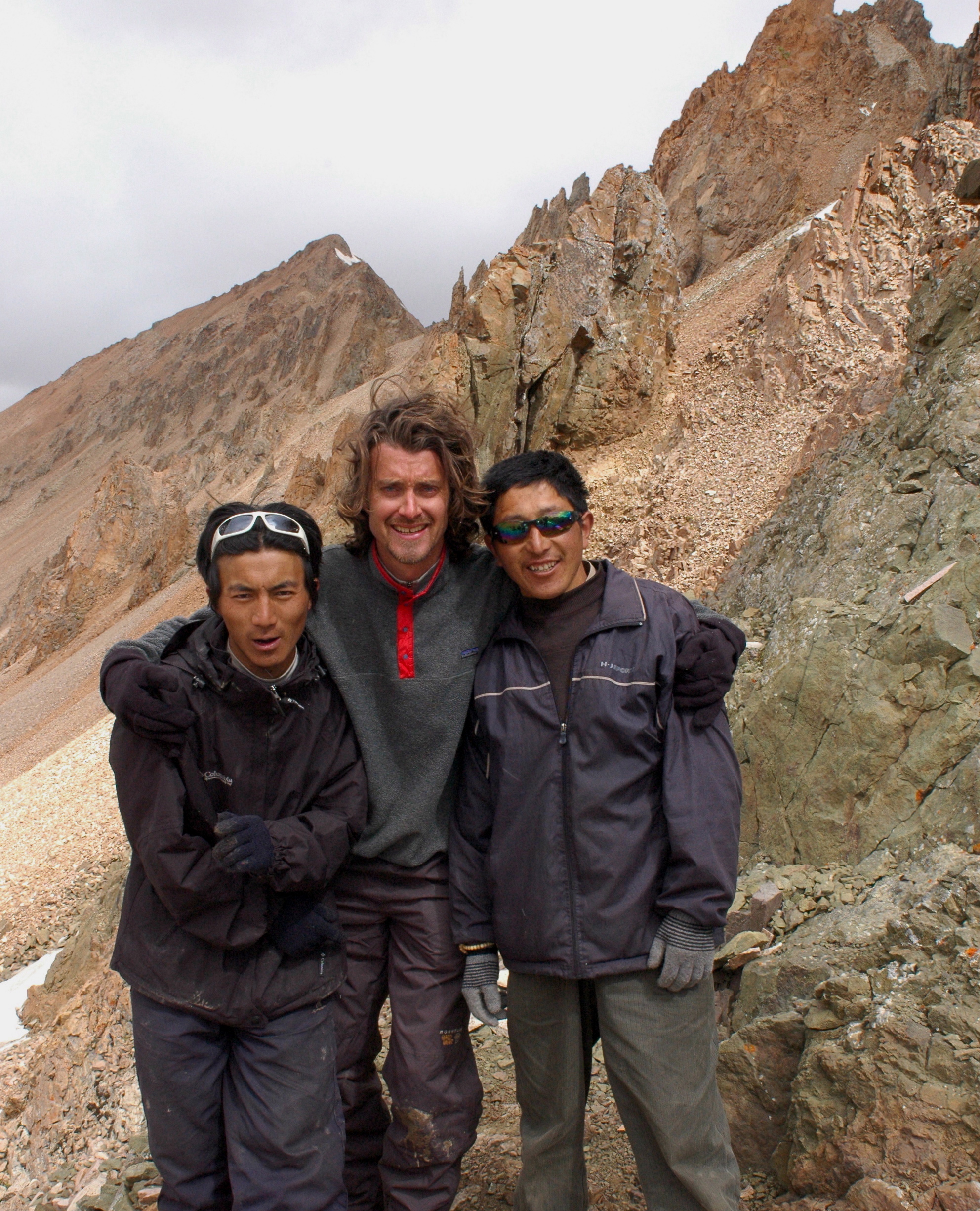 Explorer and author Jeff Fuchs (centre) atop the 5,400 metre Tro La pass (Crying Pillar Pass) in central Tibet on his successful bid to become the first westerner to travel the entire length of the Ancient Tea Horse Road. He is flanked by Sonam Gelek (left) and Nome (right).